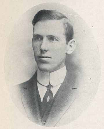 Henry W. Lever, Carroll University, Physical Director